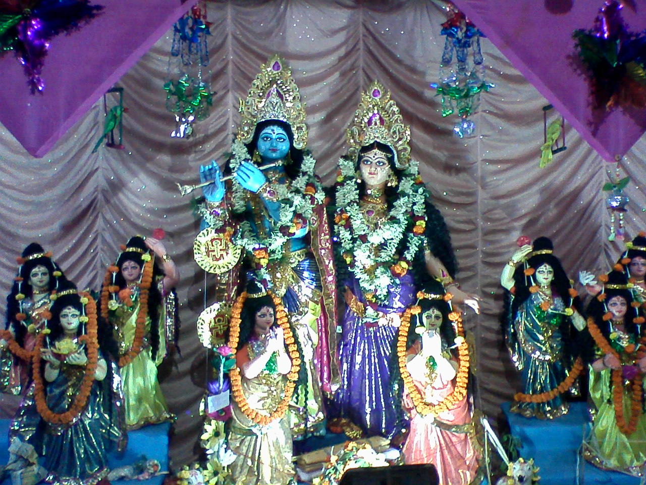 Ras lila of Radha and Krishna.